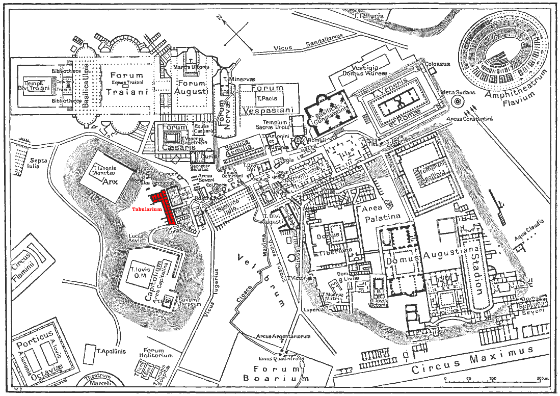 Tabularium on a map of ancient downtown Rome